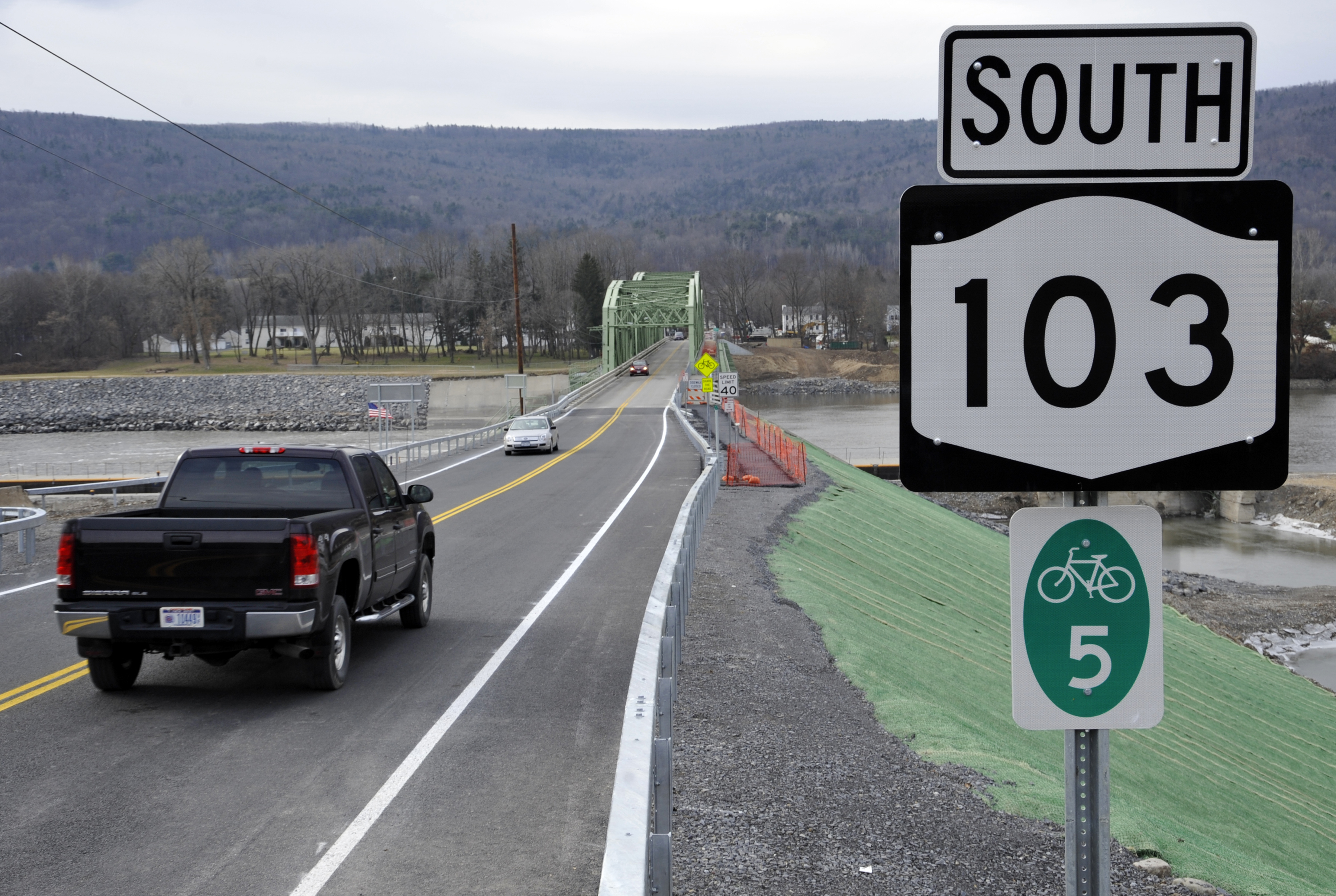 NY 103 heading southbound from NY 5 in December 2011, just after reconstruction of the roadway was completed from damage from Hurricane Irene and Tropical Storm Lee.